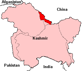 Map of Kashmir.